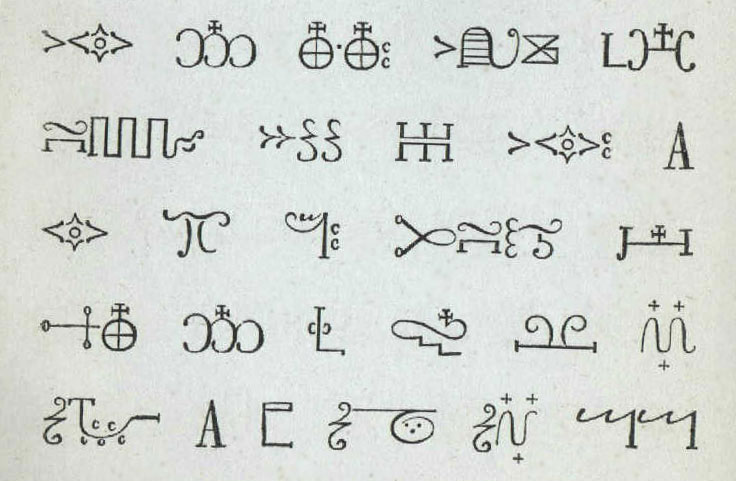 A sample of Mi'kmaq "hieroglyphic" writing, the Ave Maria.